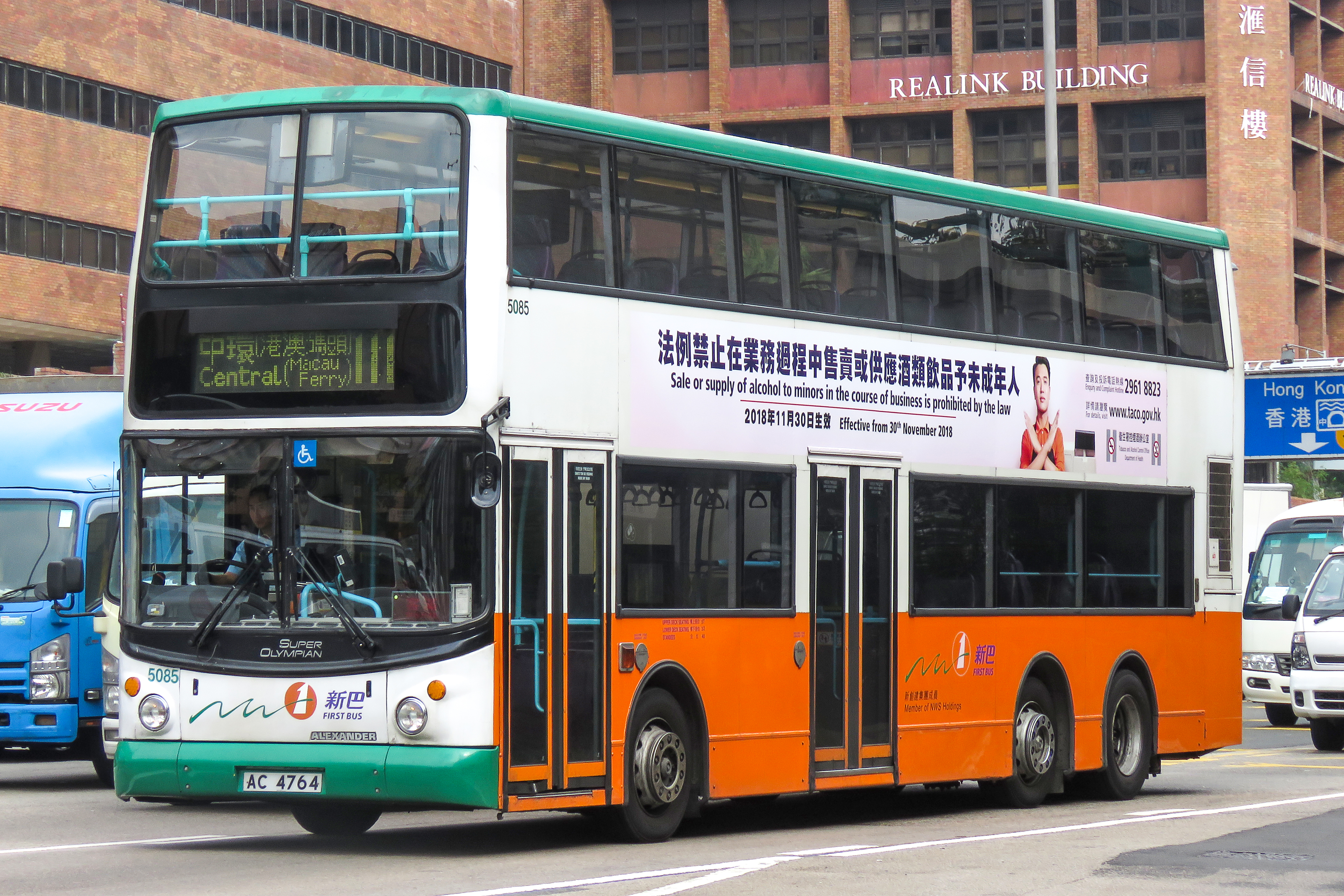 AC4764 turned around here, ready to load passengers from here. The registration was formerly used on a Guy Arab V (fleet number S25) of China Motor Bus, which was later converted to a recovery truck.